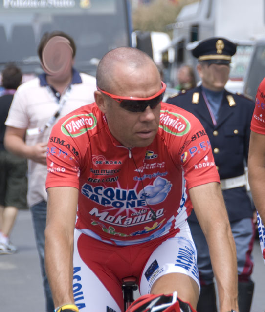 Massimo Codol at Giro d'Italia 2009